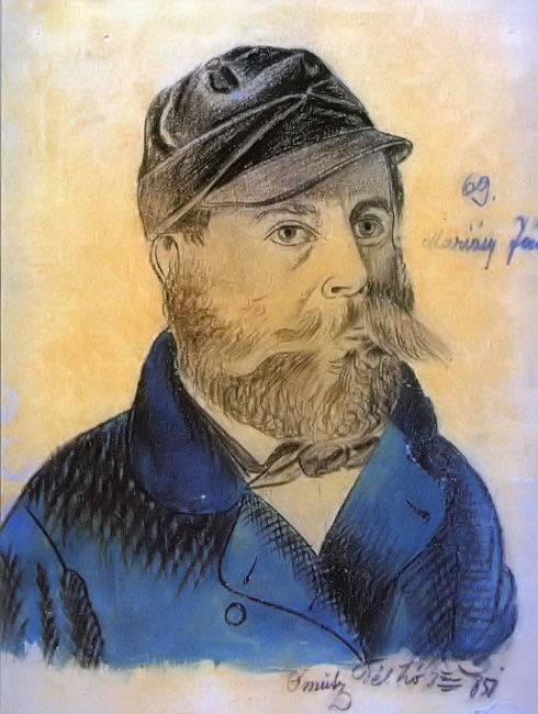 János Máriássy , participant of the Hungarian revolution and war of independence in 1848–49